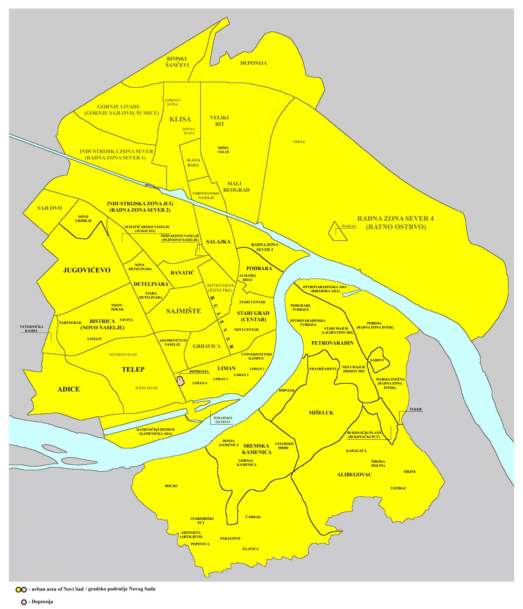 Map of Novi Sad, showing position of Depresija neighborhood.